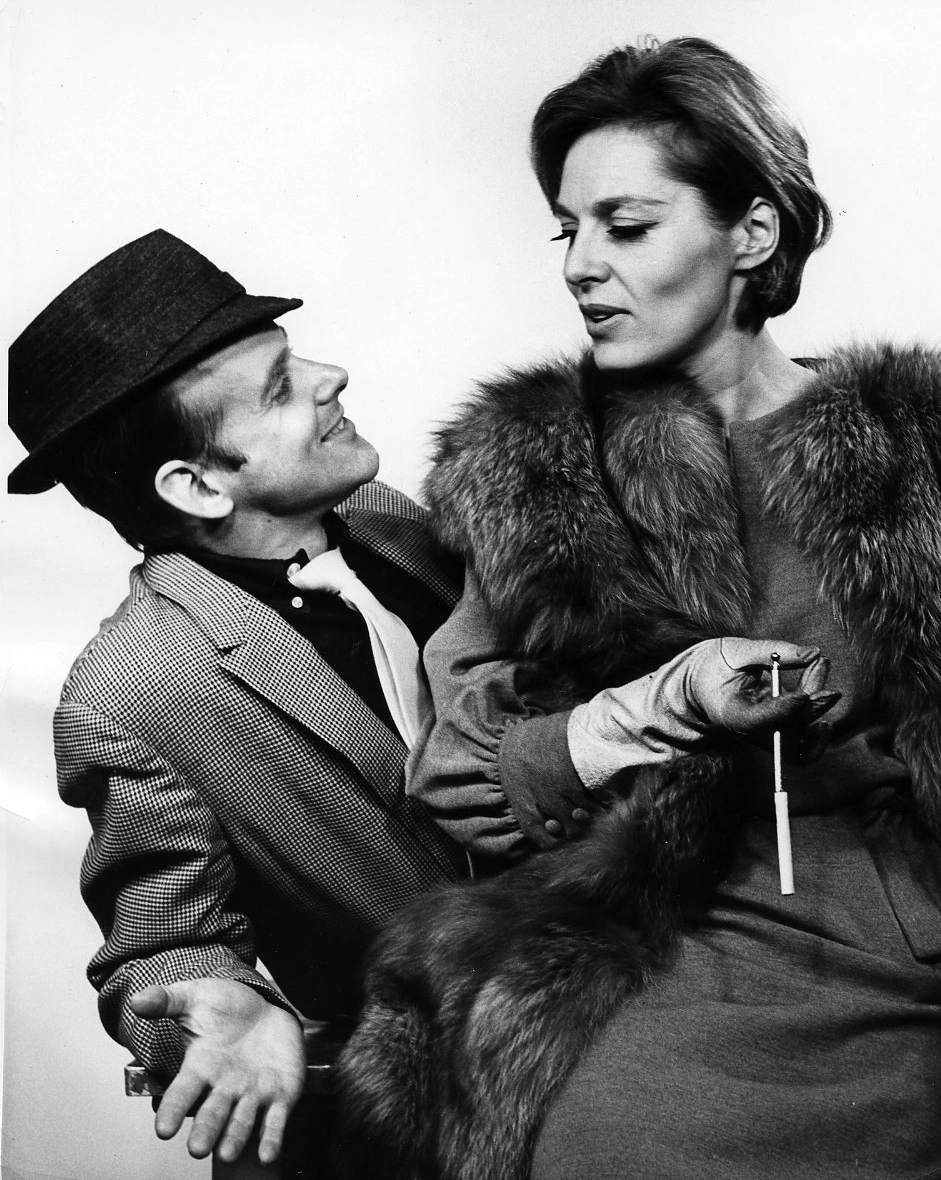 Publicity photo of Bob Fosse and Viveca Lindfors in the 1963 revival of the Broadway musical Pal Joey.